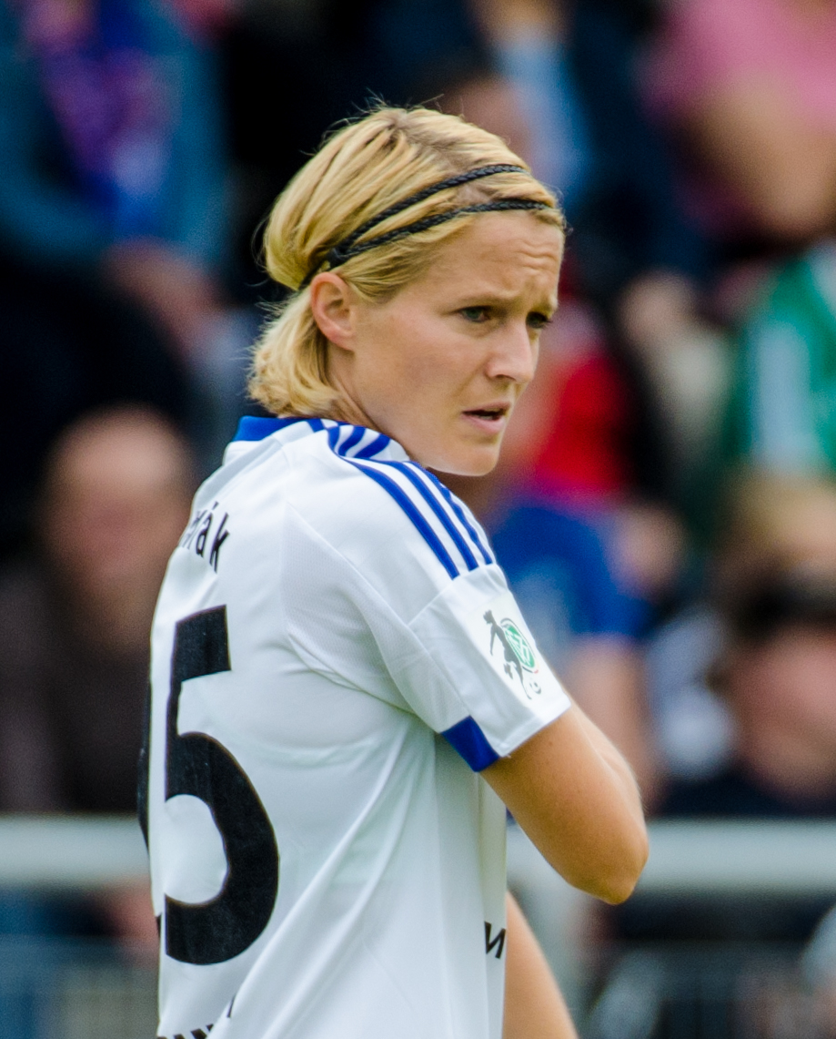 Match of the German Women's Football Bundesliga between 1.FFC Frankfurt and 1. FFC Turbine Potsdam, 2015-09-13